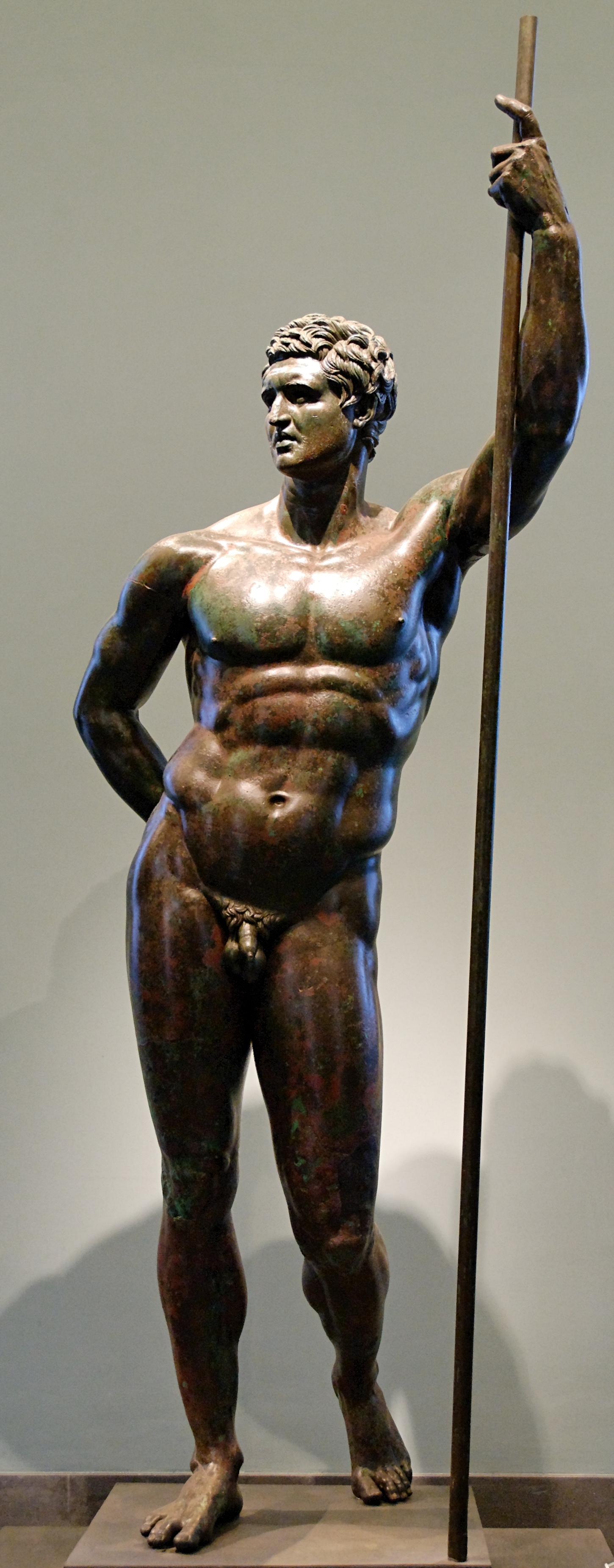 Statue of a prince or dynast without crown, traditionnally thought to be a Seleucid prince, maybe Attalus II of Pergamon. Bronze, Greek artwork of the Hellenistic era, 3rd-2nd centuries BC.